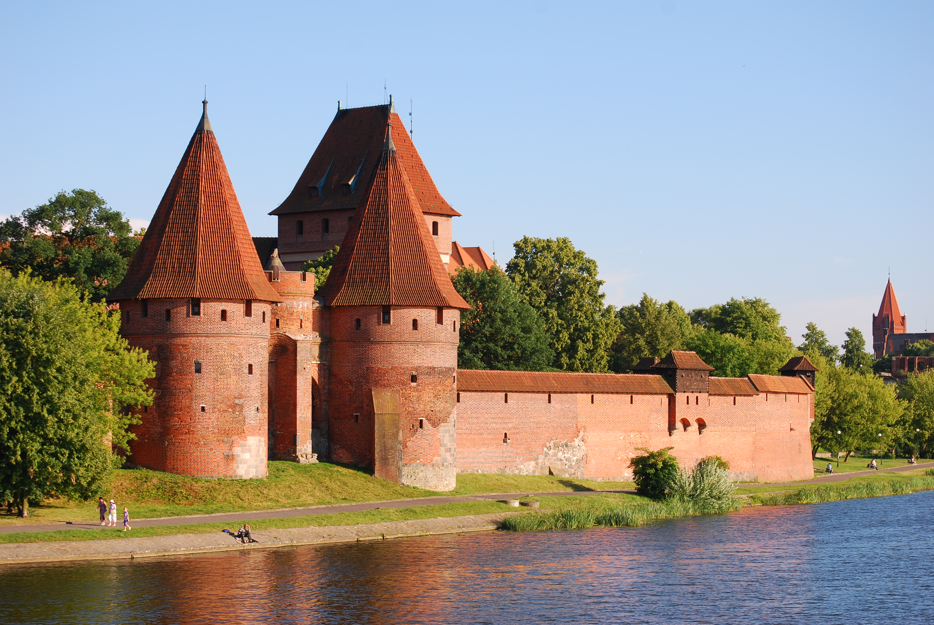 Castle of the Teutonic Order in Malbork, Pomerania, Poland: Water GatesRomână: Castelul Ordinului Teutonic de la Malbork, Pomerania, Polonia: Poarta Apei